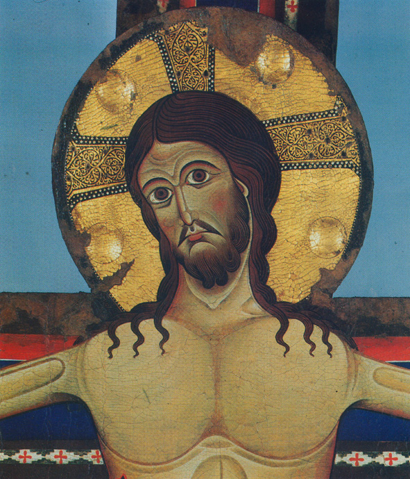 Crucifix. detail